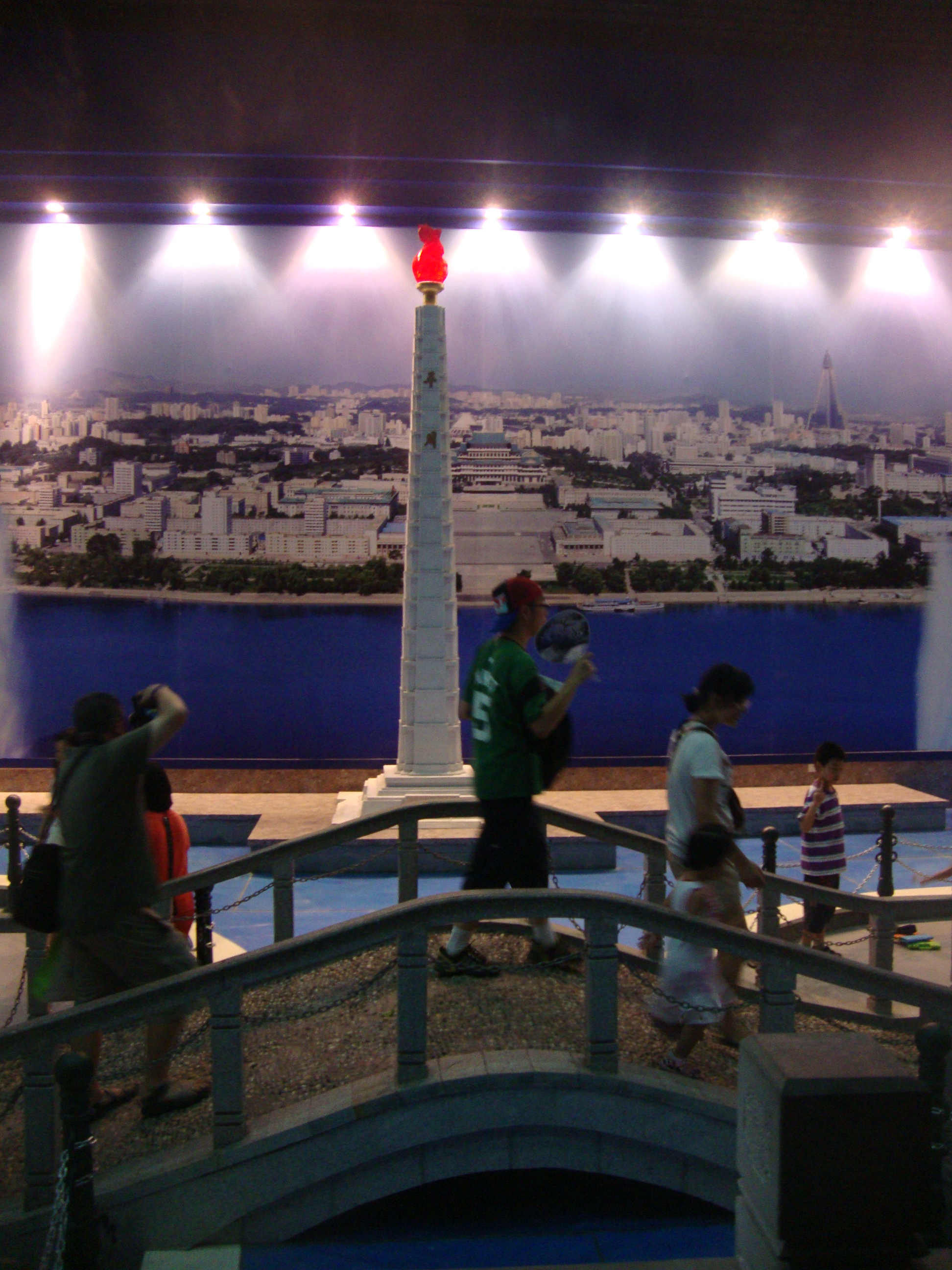 The Juche Tower inside the DPR Korea Pavilion at Expo 2010 in Shanghai.